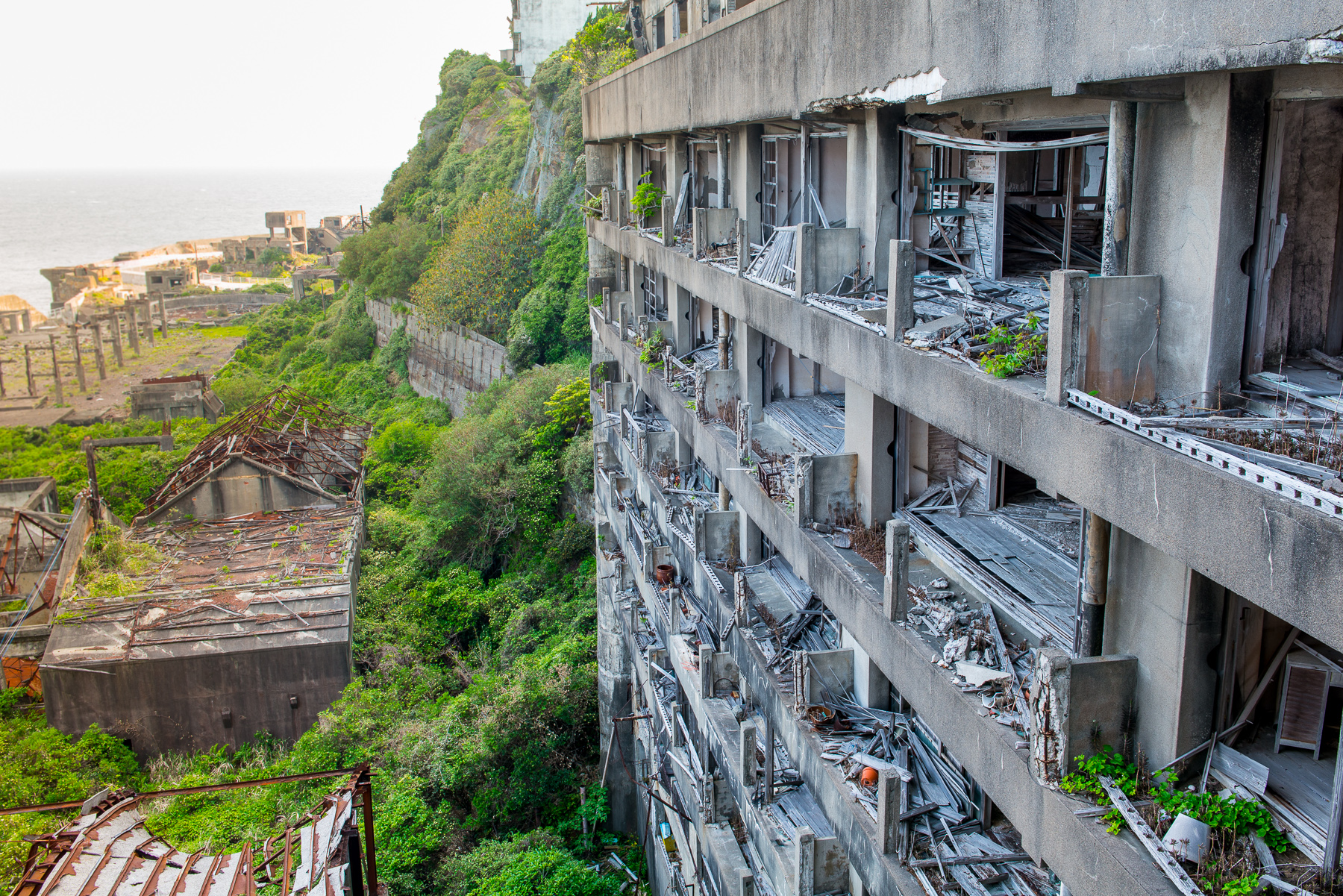 Gunkanjima. A view from the school.